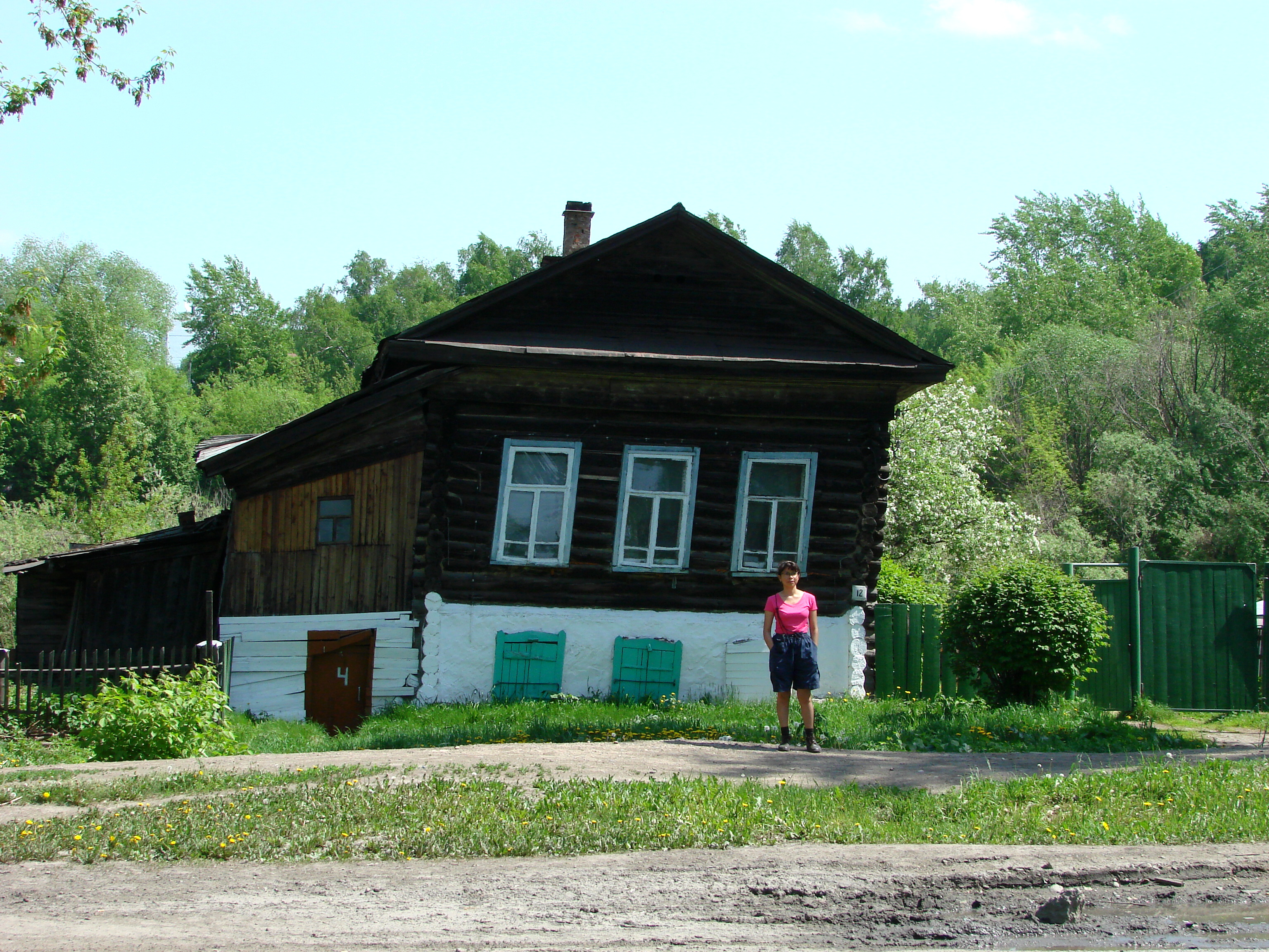 Traditional wooden house leans at an angle. Tomsk, Siberia, Russia. June 2008. Person in photo is Dr. Griselda Ramirez of Mexico City, Mexico.